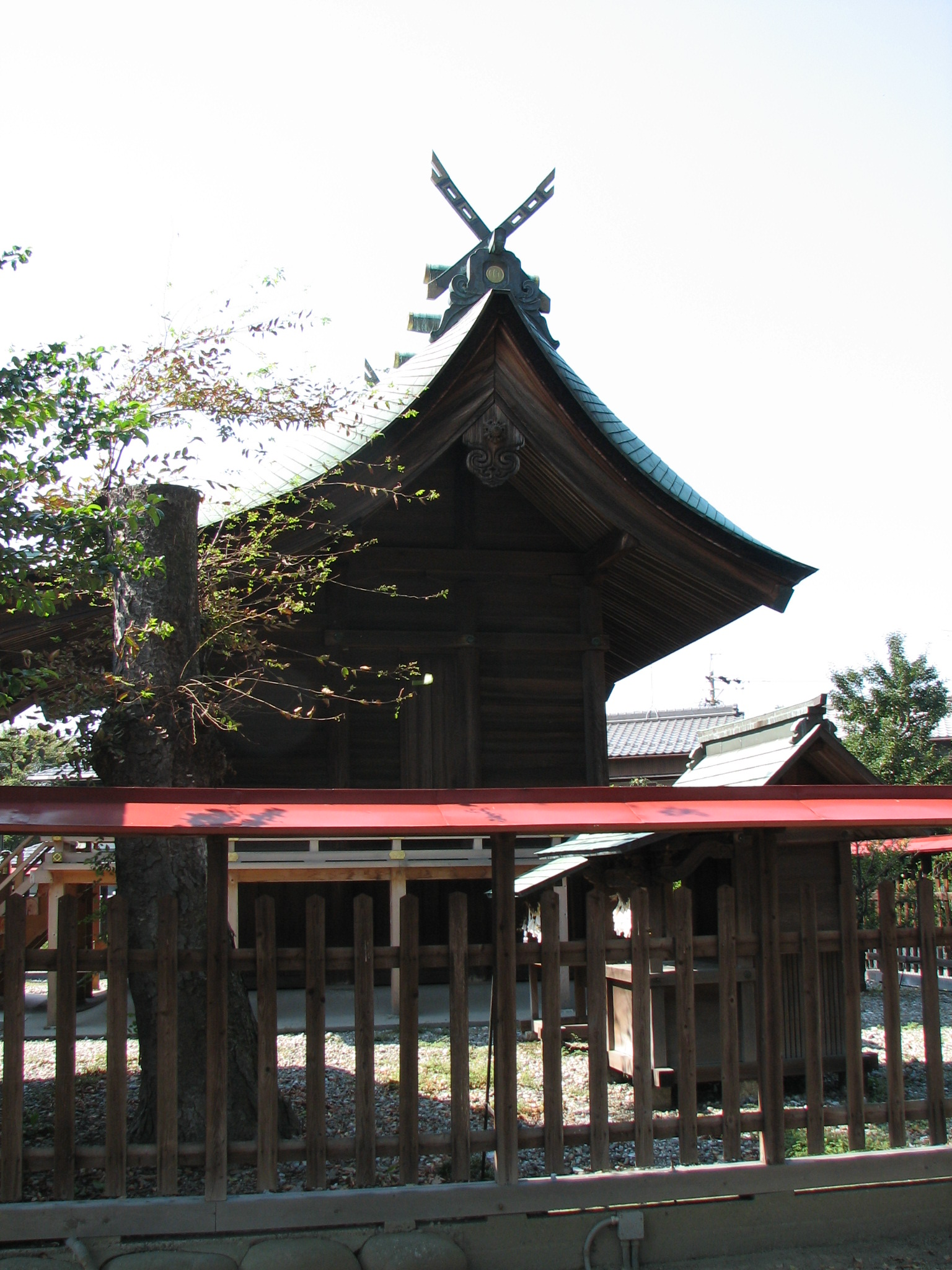 the honden of Oomiwa Shrine, Ichinomiya, Aichi, Japan 大神神社本殿（愛知県一宮市）